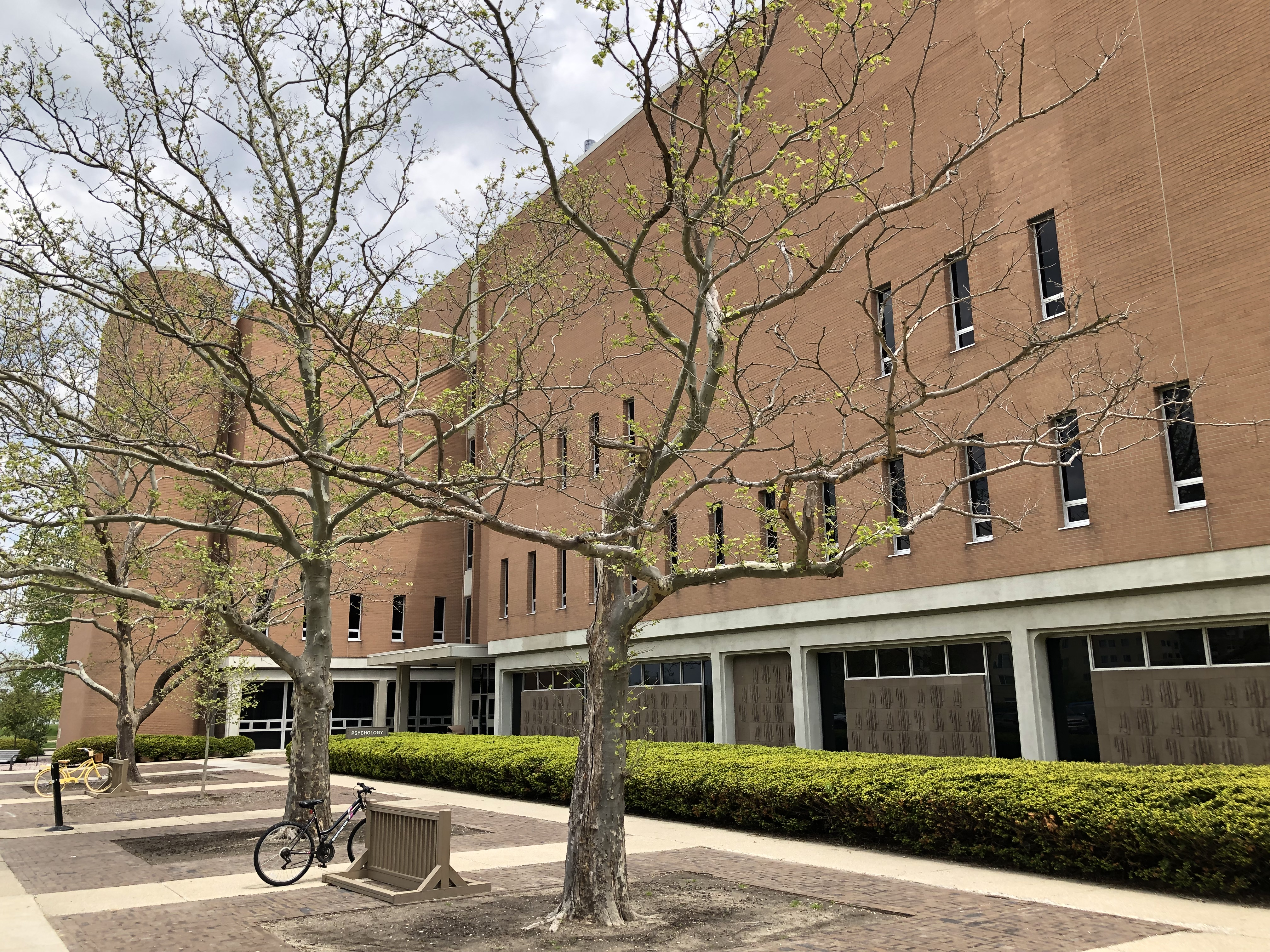 The BGSU Psychology Building. Note that upper floors lack windows.